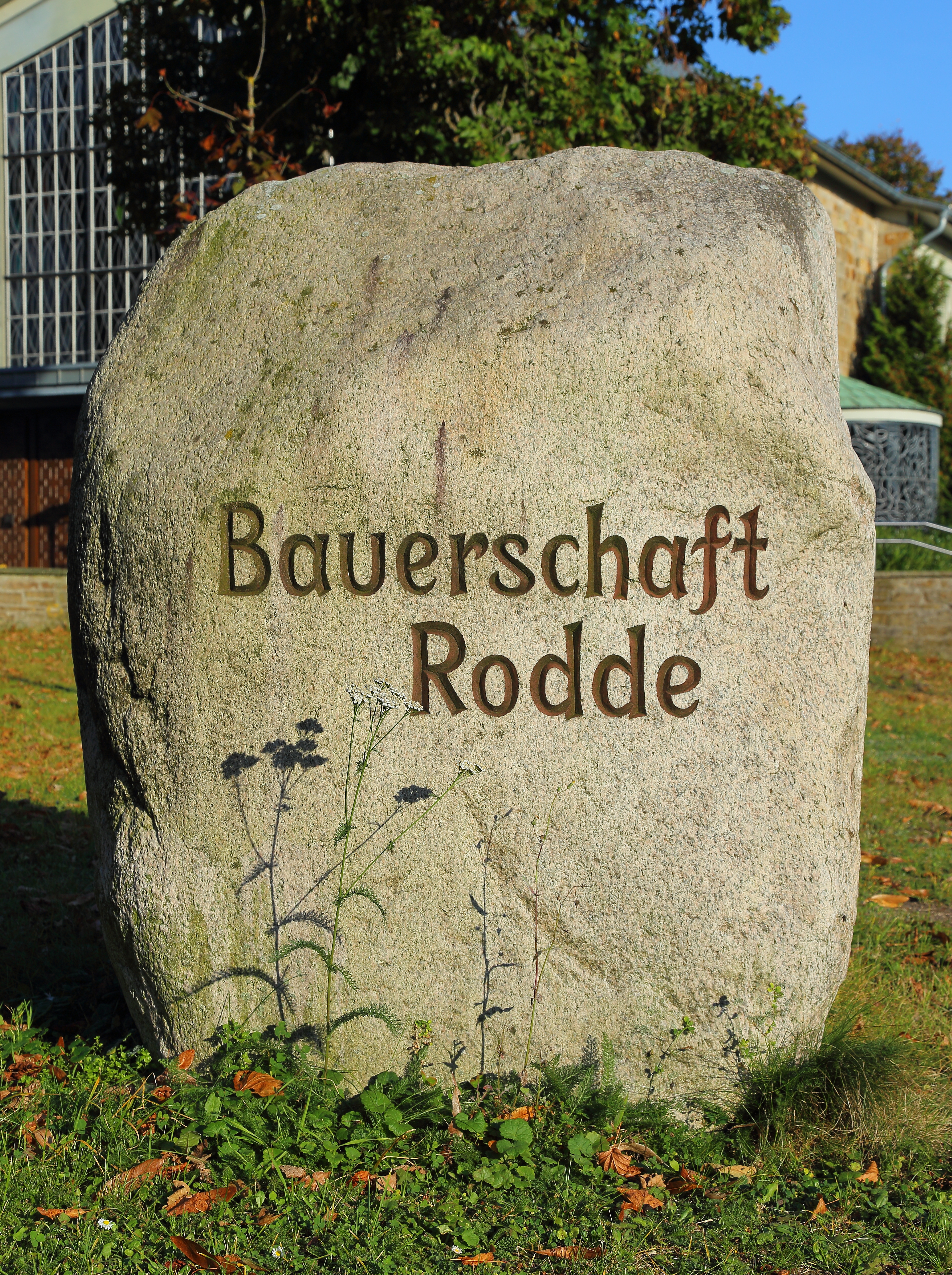 Memorial stone Bauerschaft Rodde in Rheine-Rodde, Kreis Steinfurt, North Rhine-Westphalia, Germany. A Bauerschaft is a kind of hamlet in some areas in Germany.